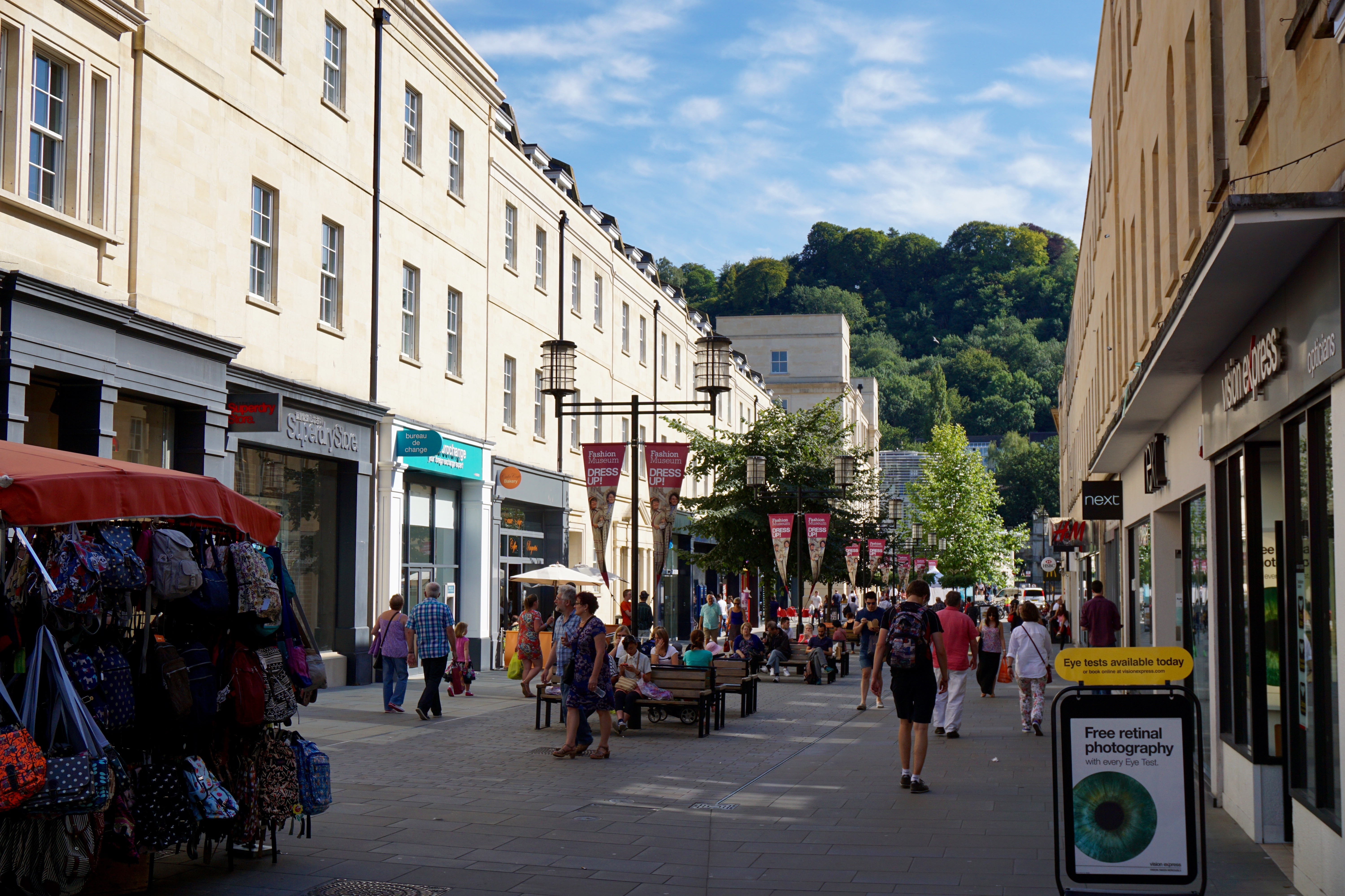 Looking south down Southgate Street, Bath on a Sunday afternoon